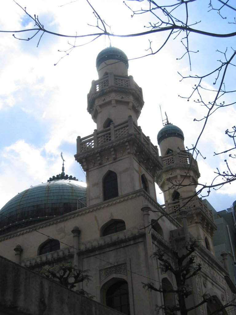 Description: Kobe Mosque, Kobe, Japan Date: 14 Mar 2005 Source: photo taken by GeoFrog